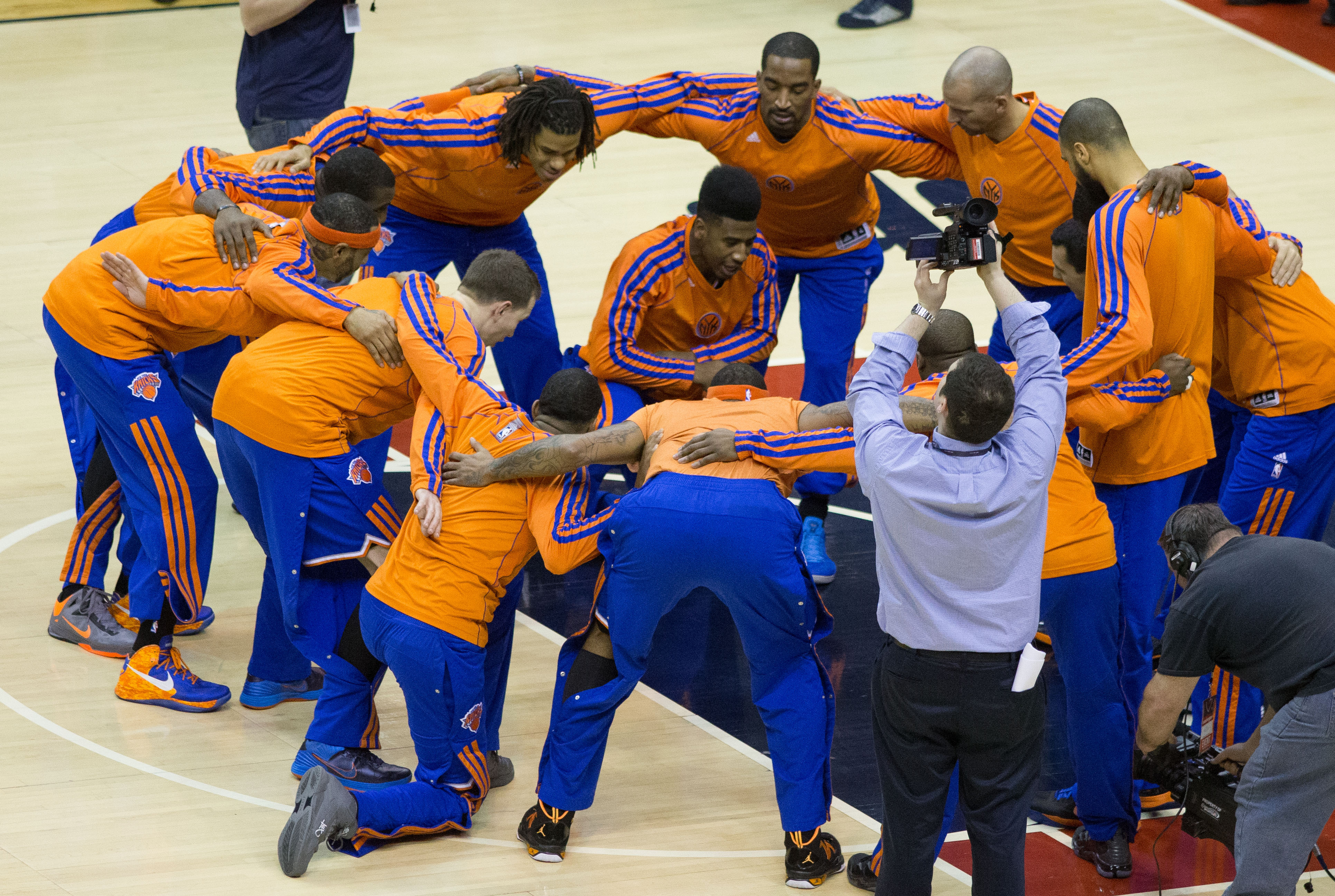 New York Knicks at Washington Wizards March 1, 2013